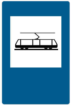 Luxembourg road sign diagram